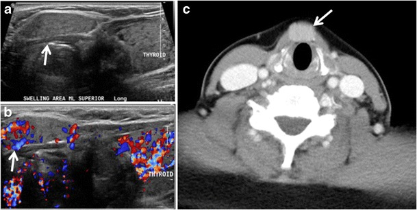 For context, see Computed tomography of the thyroid.